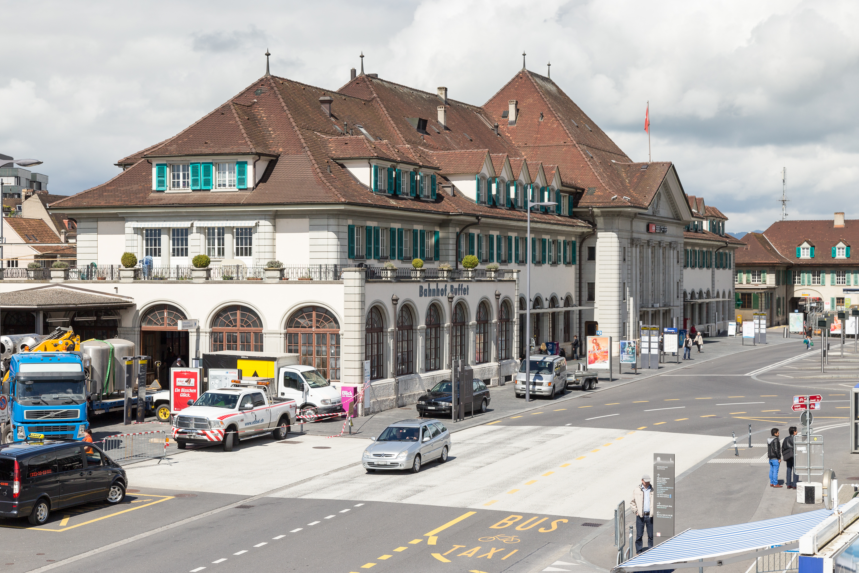 Thun Train Station